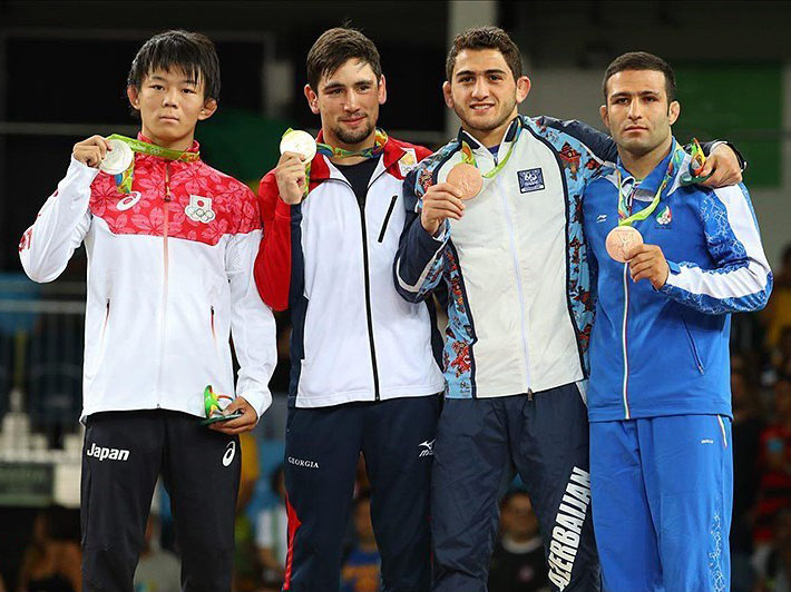 2016 Summer Olympics, Men's Freestile Wrestling 57 kg. Podium.